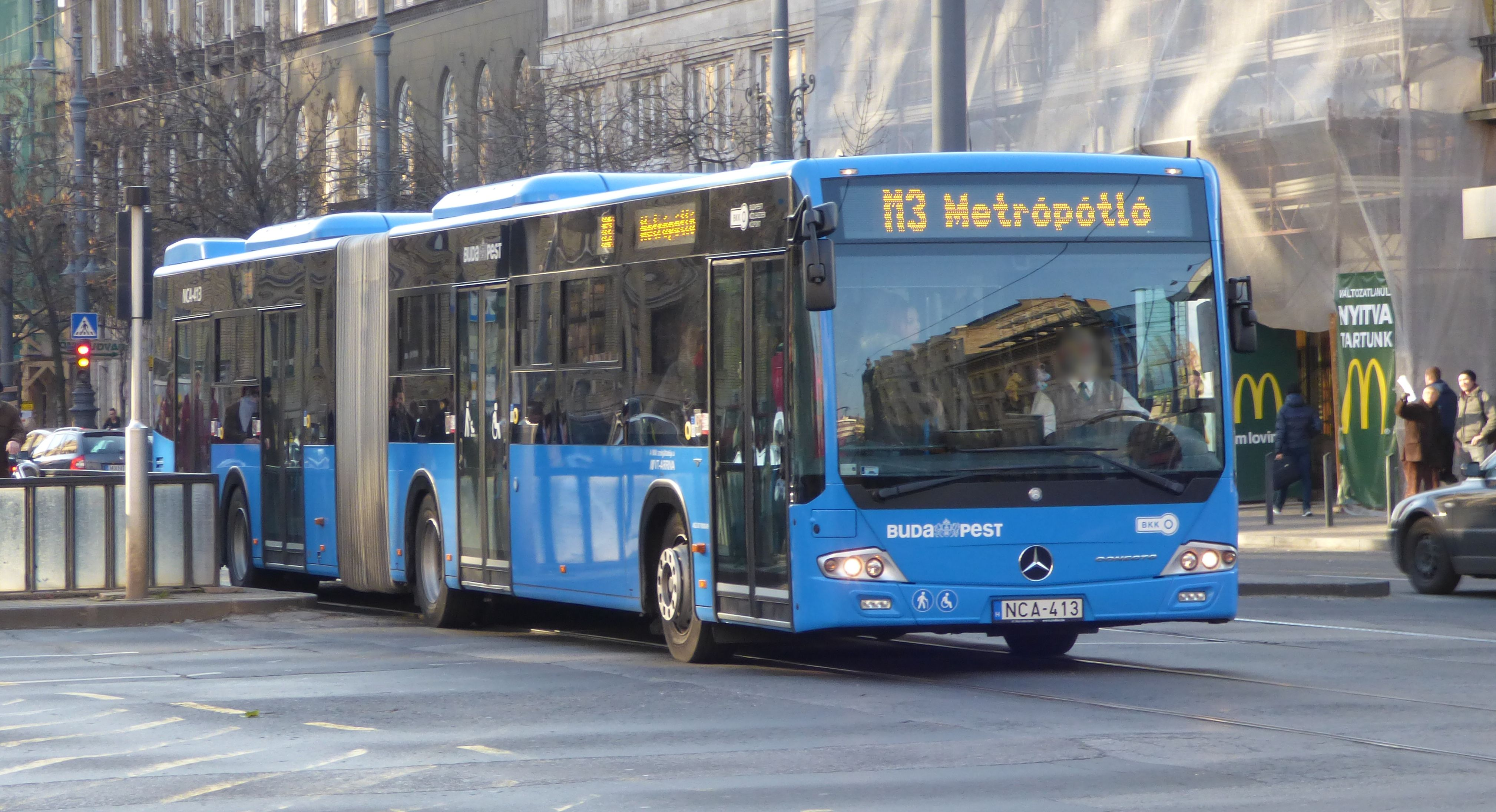 Metro replacement bus, Budapest Astoria, Mercedes-Benz Conecto G (reg. NCA-413)